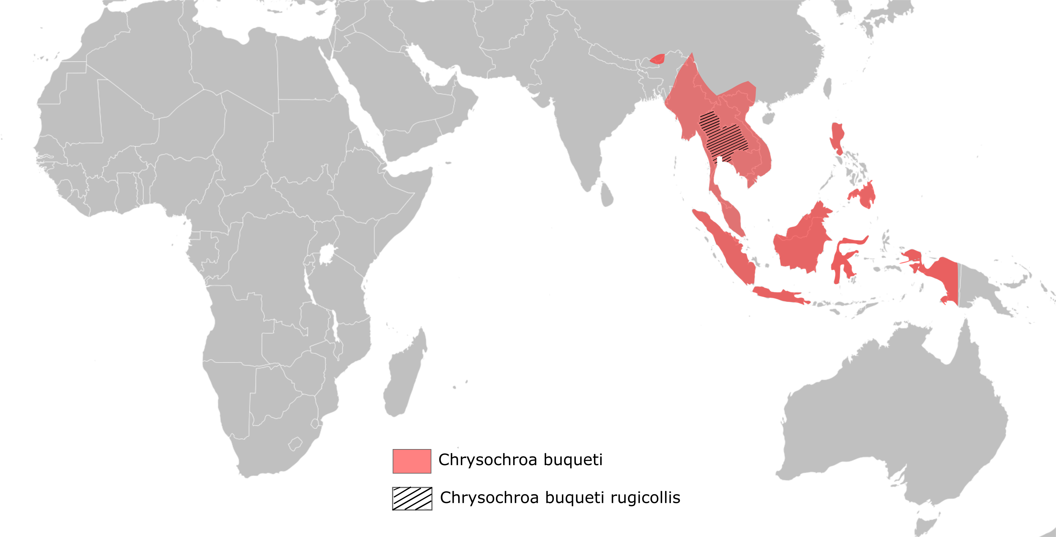 A distribution map for the jewel beetle Chrysochroa buqueti and the subspecies Chrysochroa buqueti rugicollis. Original blank SVG map by Canuckguy and others Made with Inkscape